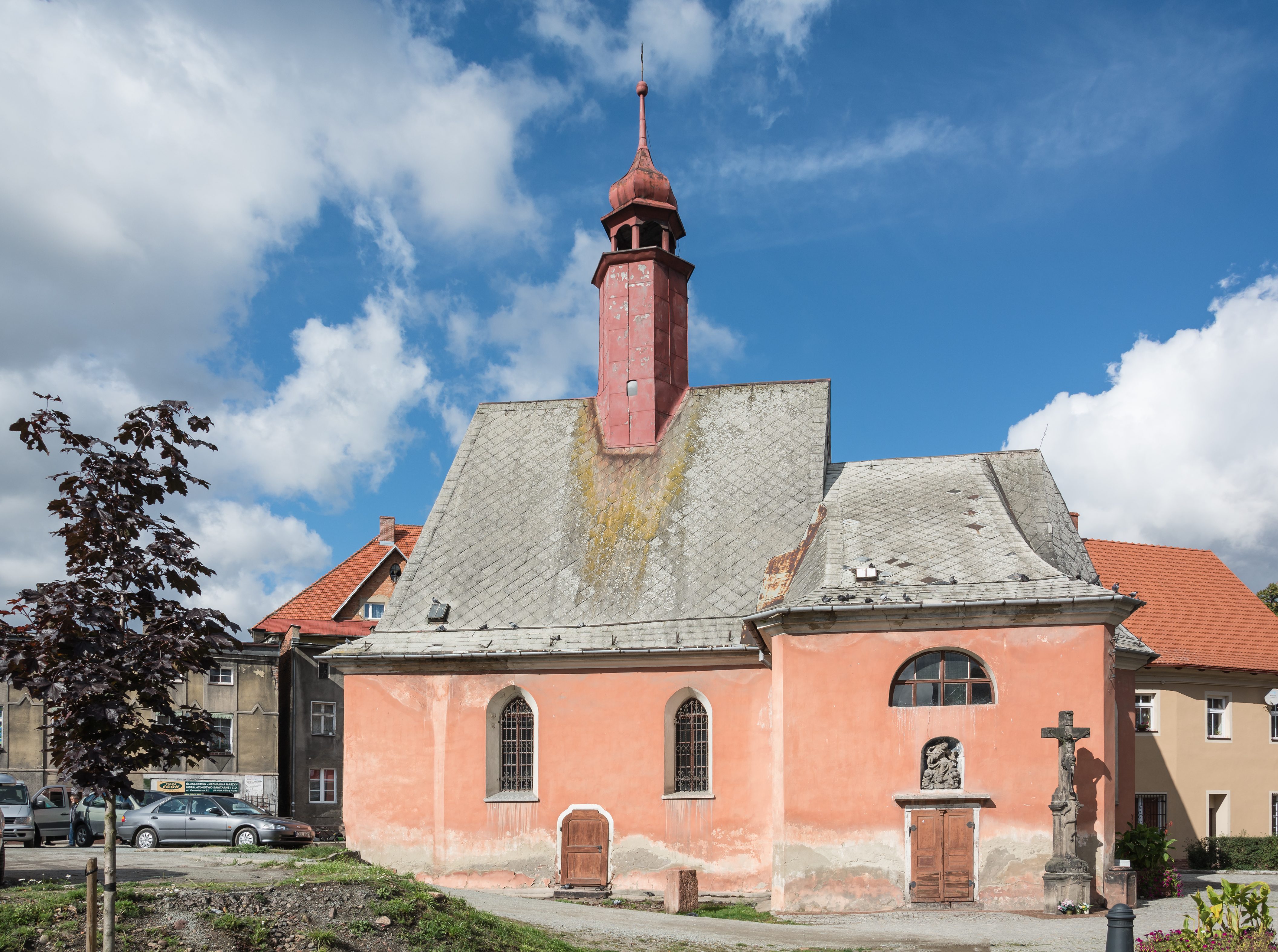 Assumption church in Nowa Ruda